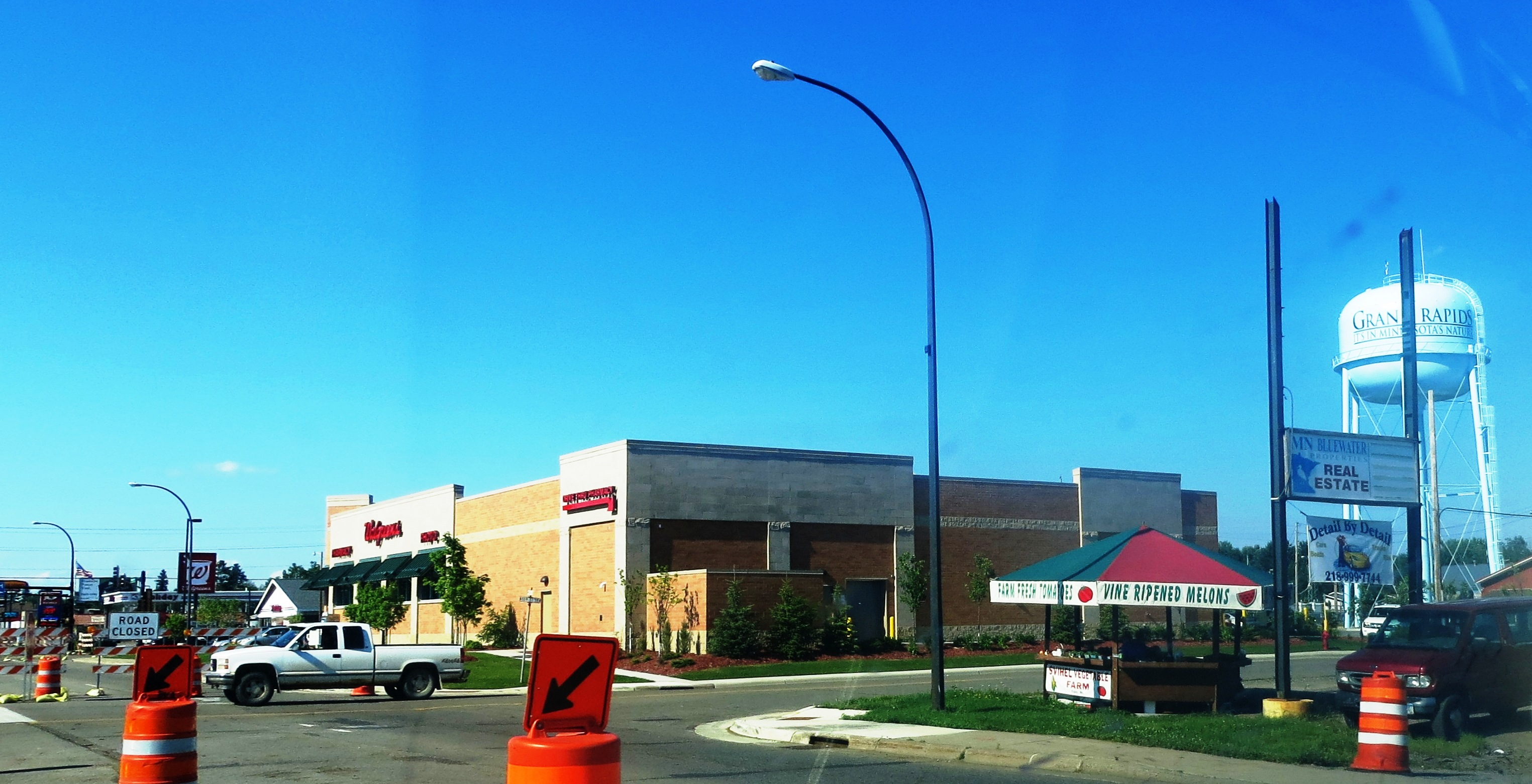 Grand Rapids is a small city in Itasca County, Minnesota, USA